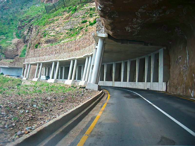 Chapmans Peak Drive, Hout Bay, Cape Town, South Africa